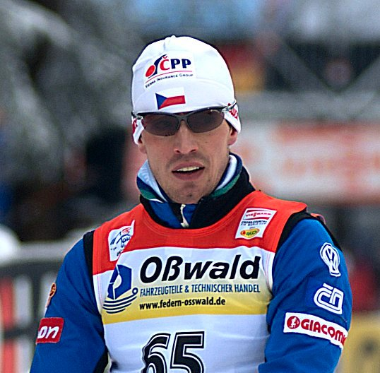 Martin Koukal at the Tour de Ski 2010 in Oberhof